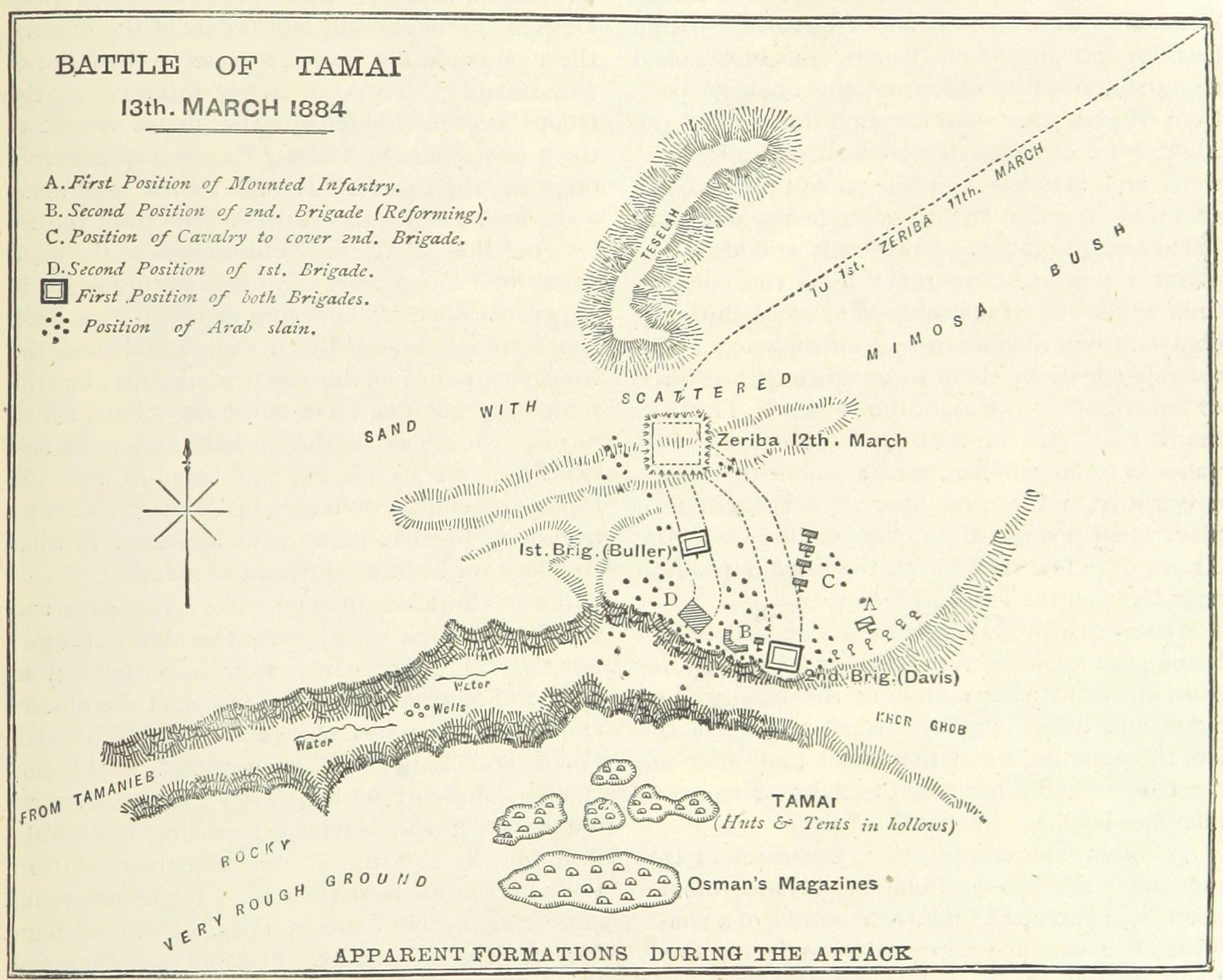 A British map of the 1884 Battle of Tamai.